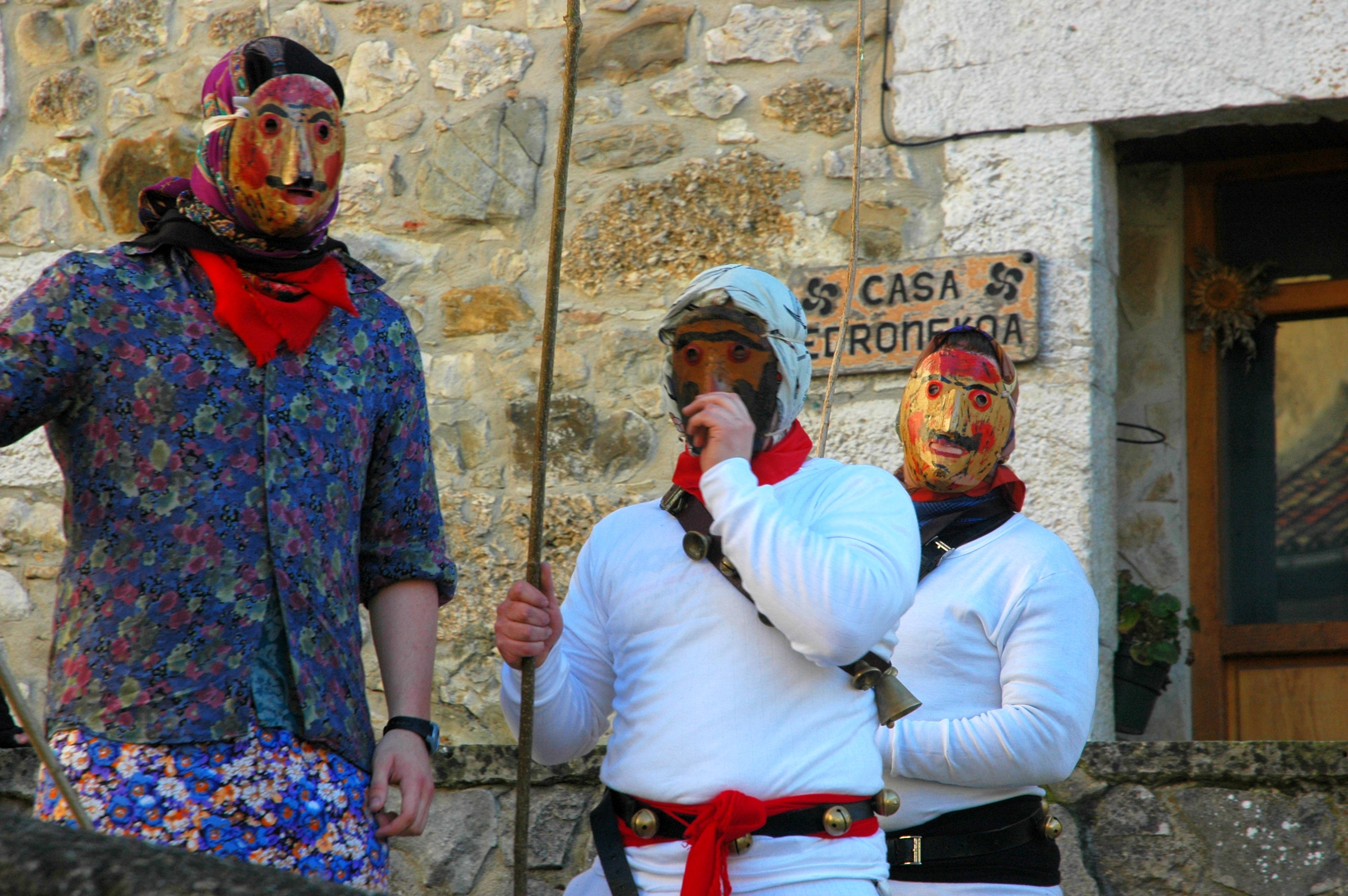 Mamoxarroak, carnival in Unanu, Navarre.